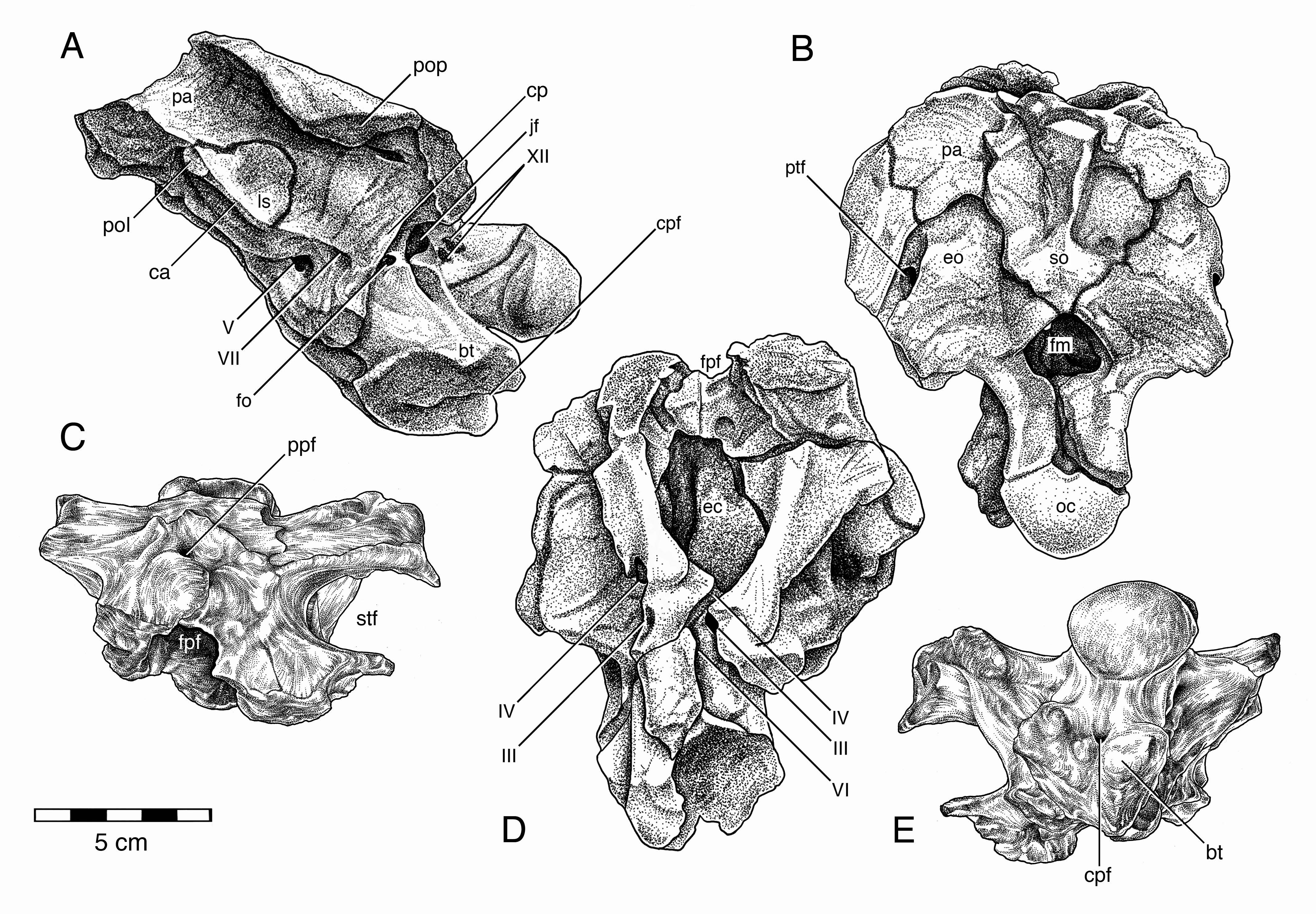 Interpretive drawings of the holotype of Nebulasaurus in: A, left lateral view; B, posterodorsal view, approximately 45° with respect to a transverse vertical plane; C, dorsal view; D, anteroventral view, approximately 45° with respect to a transverse vertical plane; and E, ventral view.